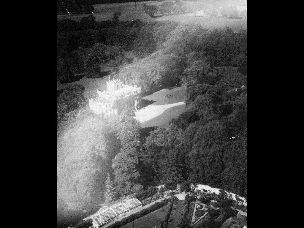 Balconie Castle garden and stables